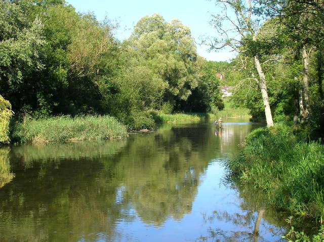 Summer fly fishing on the River Avon. Fishing for Trout and Grayling on Salisbury & District Angling Club water.